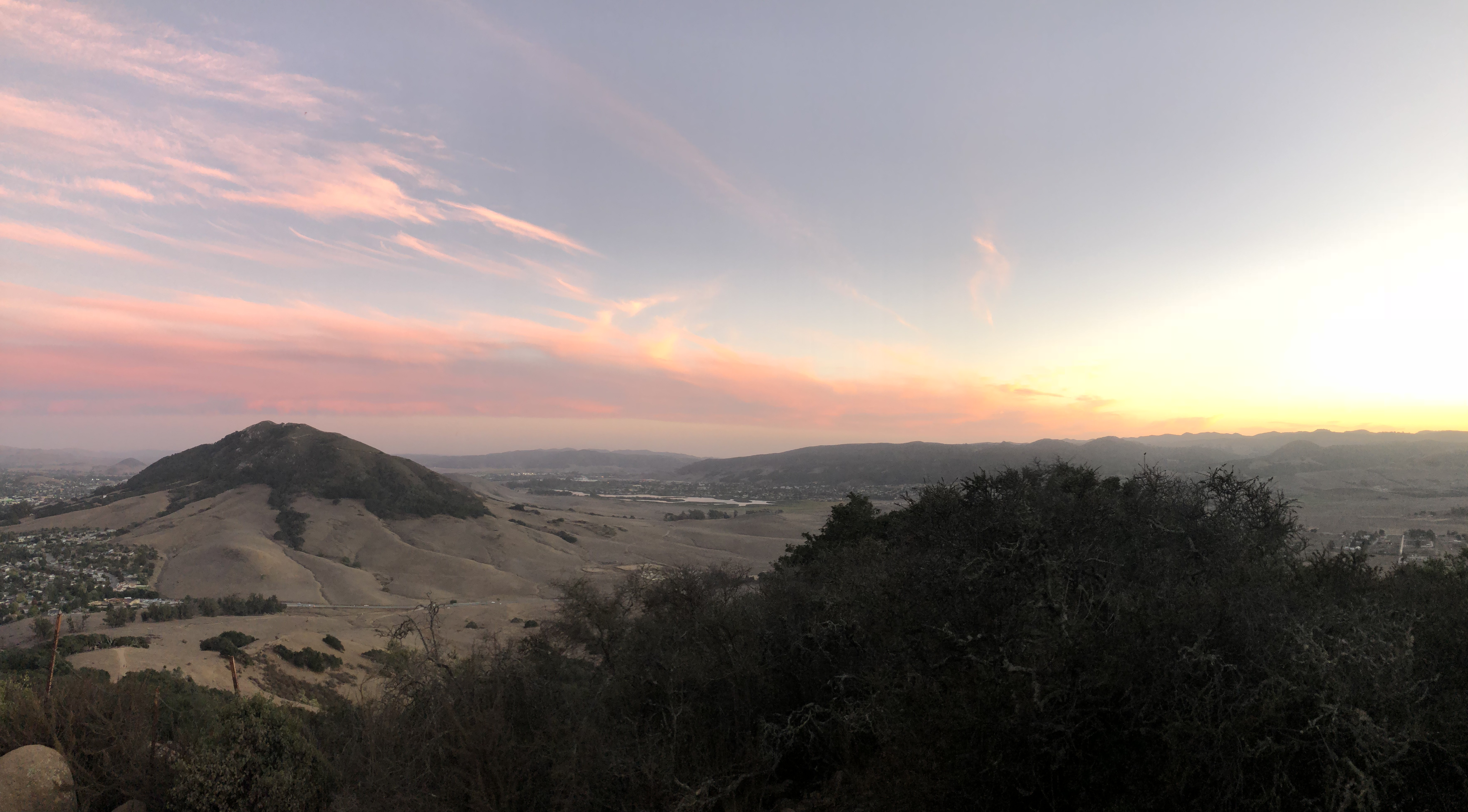 This picture was taken at the top of Bishops Peak at sunset.